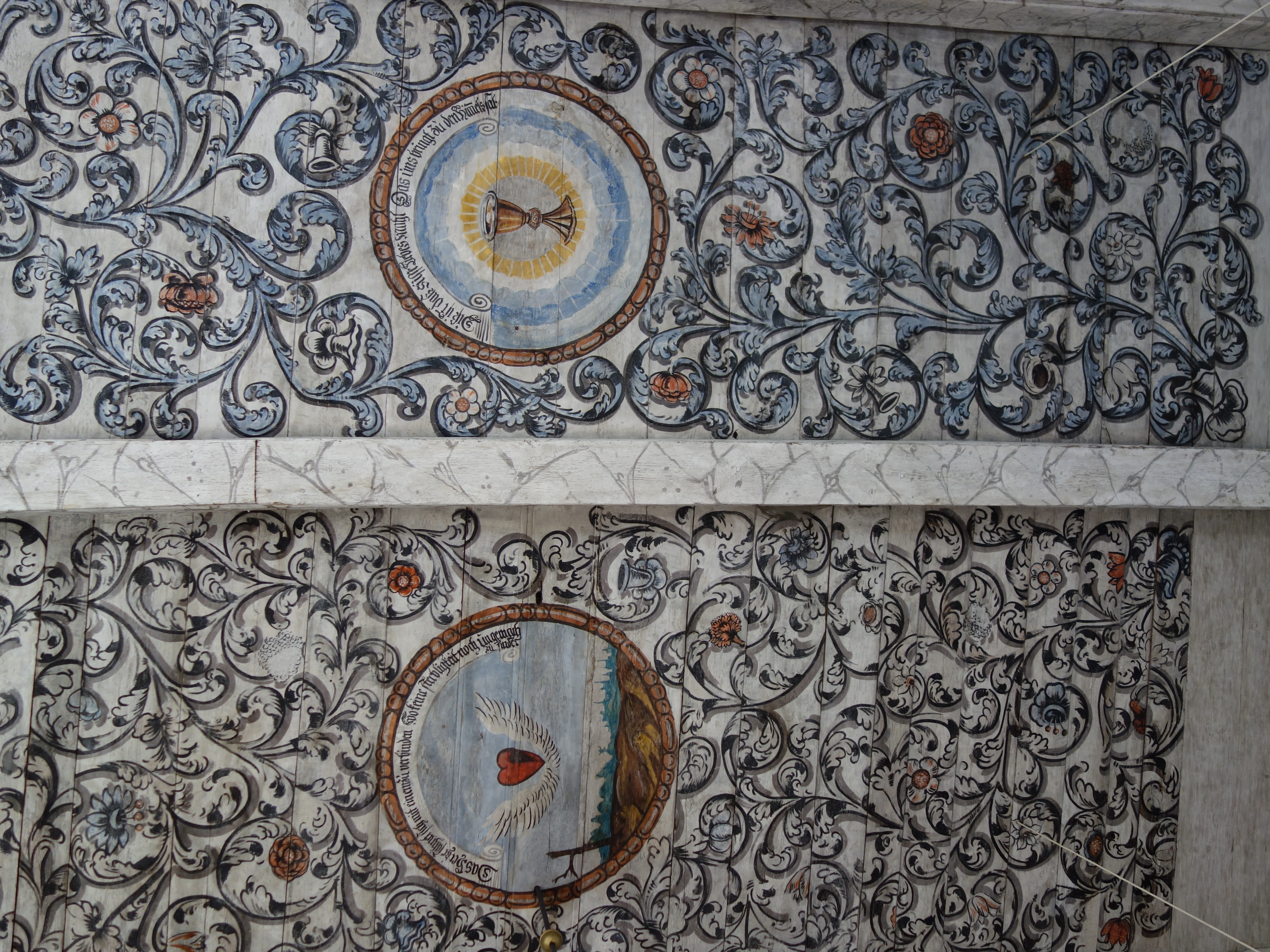 Ceiling of church in Zernitz, Zernitz-Lohm municipality, Ostprignitz-Ruppin district, Brandenburg state, Germany